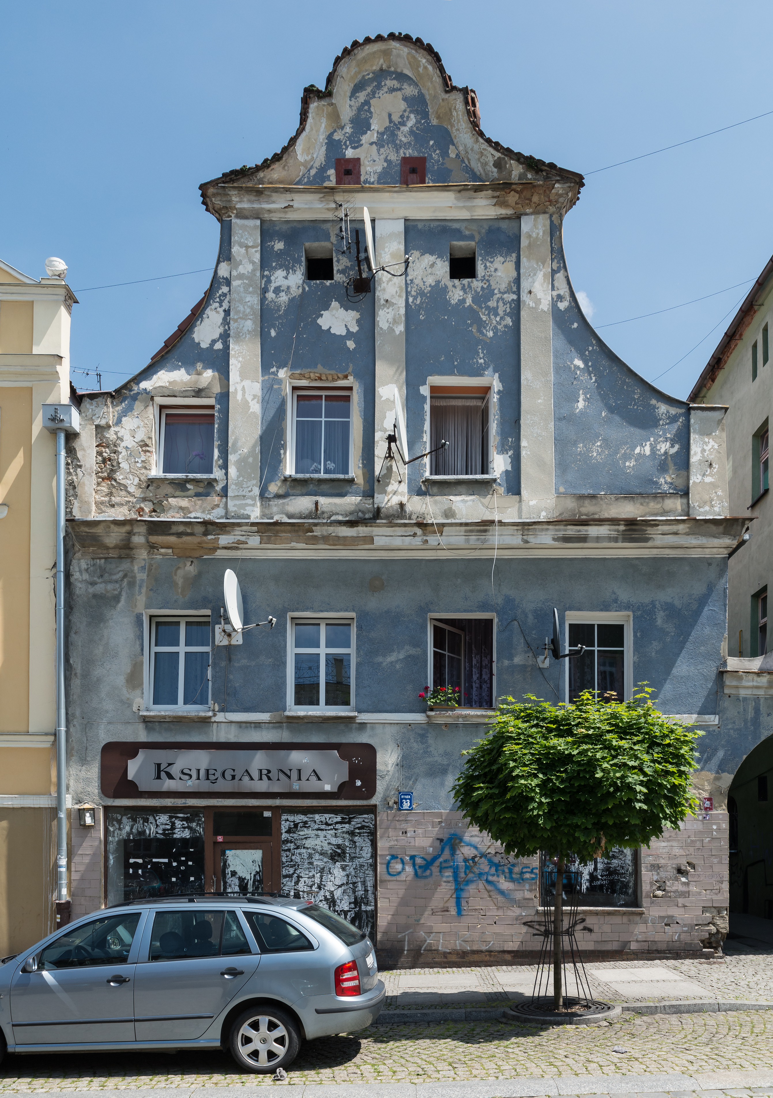 33 Market Square in Niemcza